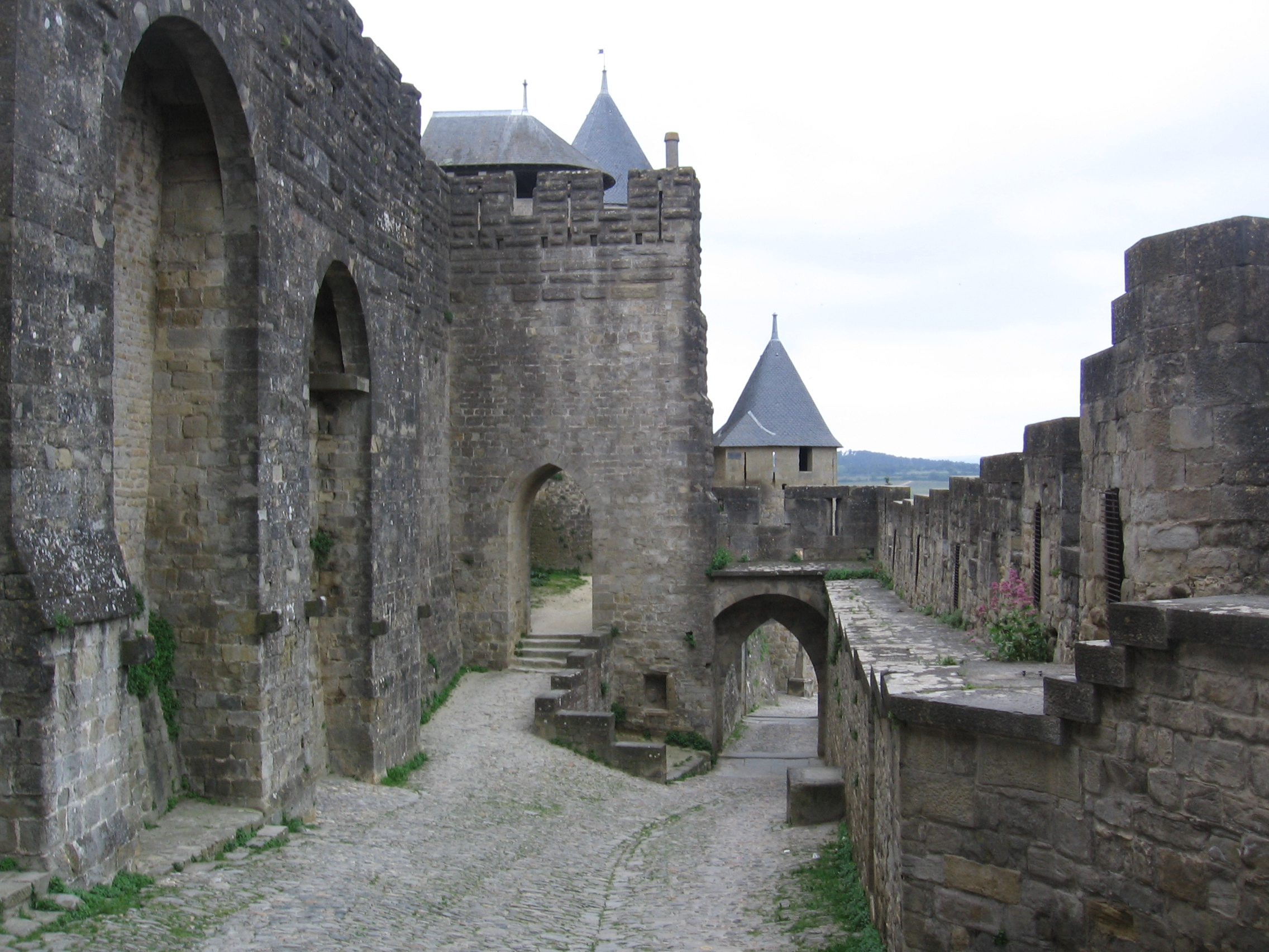 Interior of the Cité (fortress), Carcassonne.